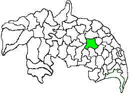 Mandal map of Guntur district showing Guntur mandal (in green)